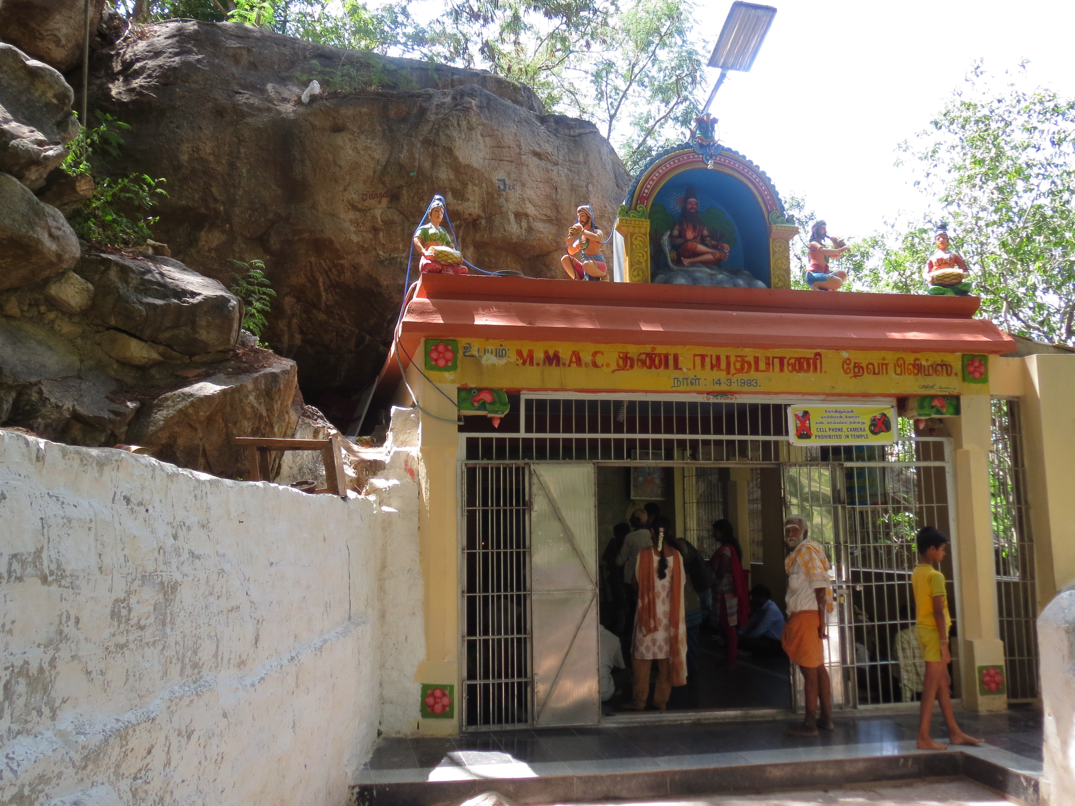 Front view of Pambatti siddhar sannidhi at Maruthamalai Temple. Tamil:மருதமலை கோயிலிலுள்ள பாம்பாட்டி சித்தர் சன்னிதி முன்தோற்றம்.